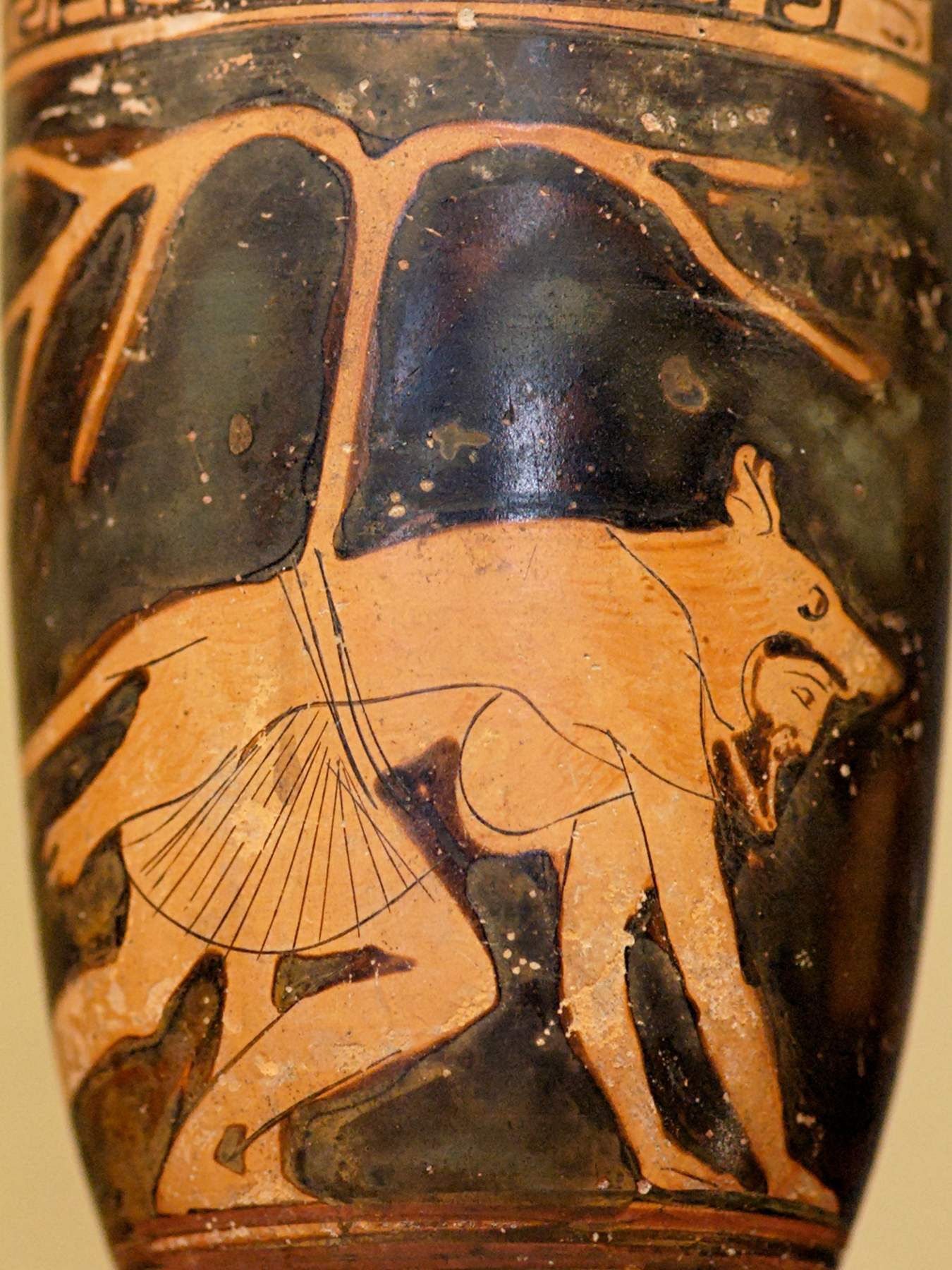 Dolon. Detail from an Attic red-figure lekythos, ca. 460 BC. Found in Italy (?).